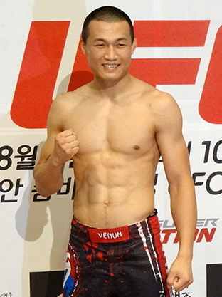 Jung Chan-Sung on July 19, 2013